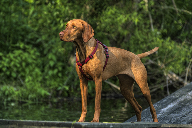 A female Vizsla, Rosie, waiting for a toy to be thrown.